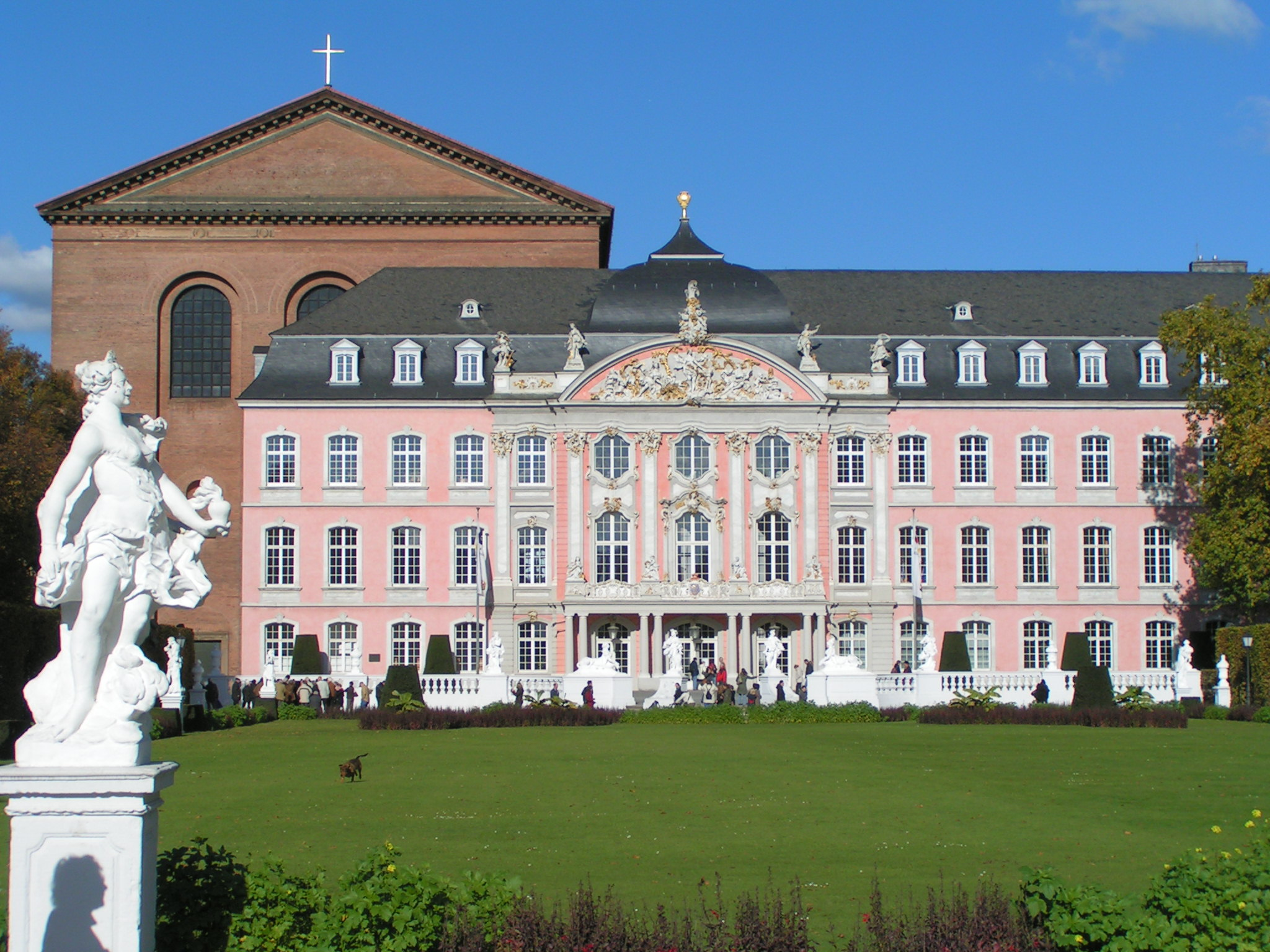 Kurfürstliches Palais, Trier, Germany